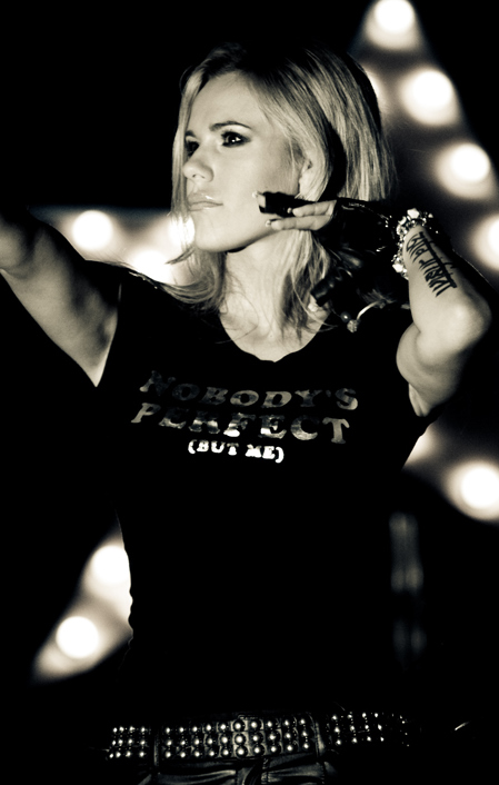 Polish singer Dorota "Doda" Rabczewska